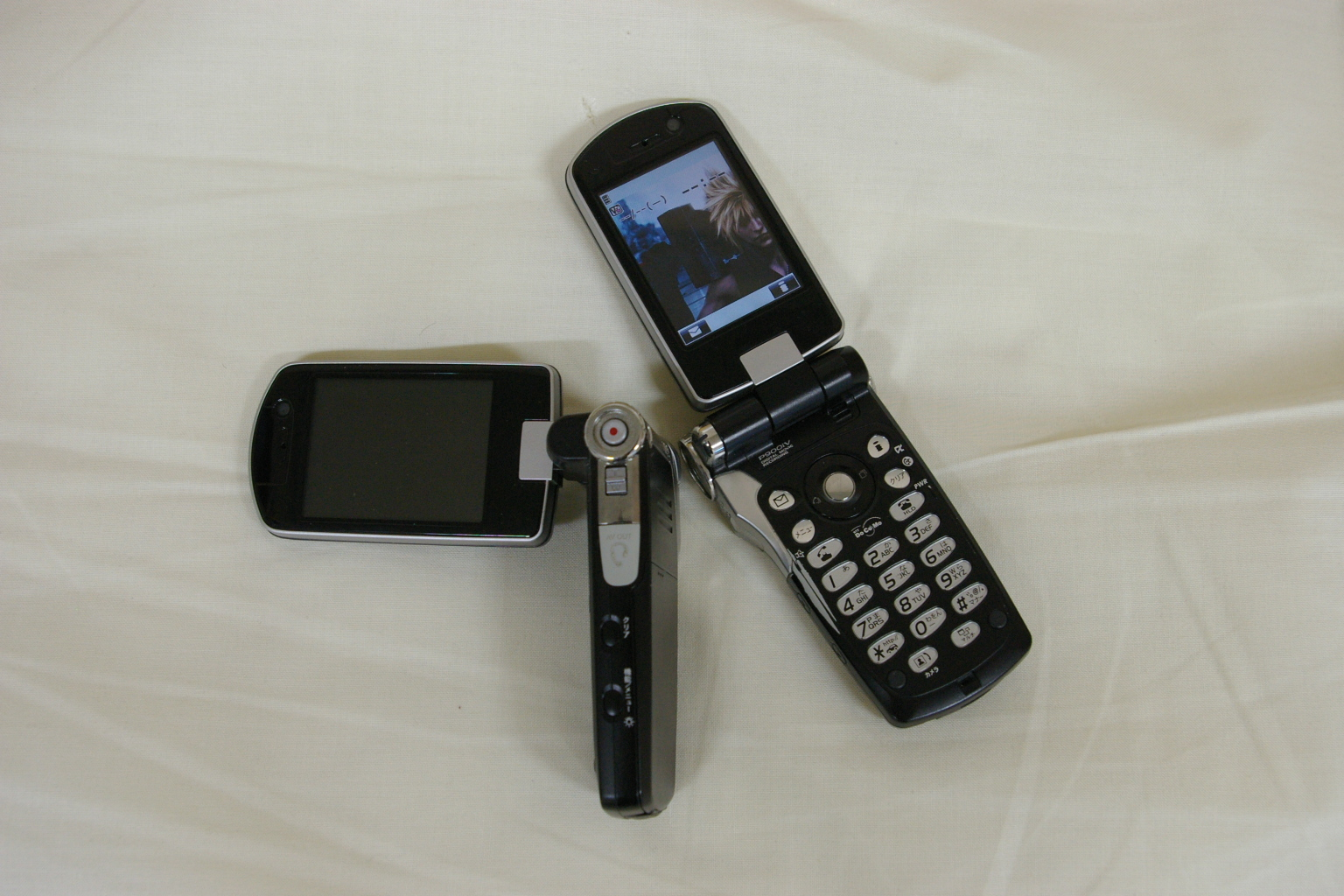 Panasonic P900iV open&movie style.